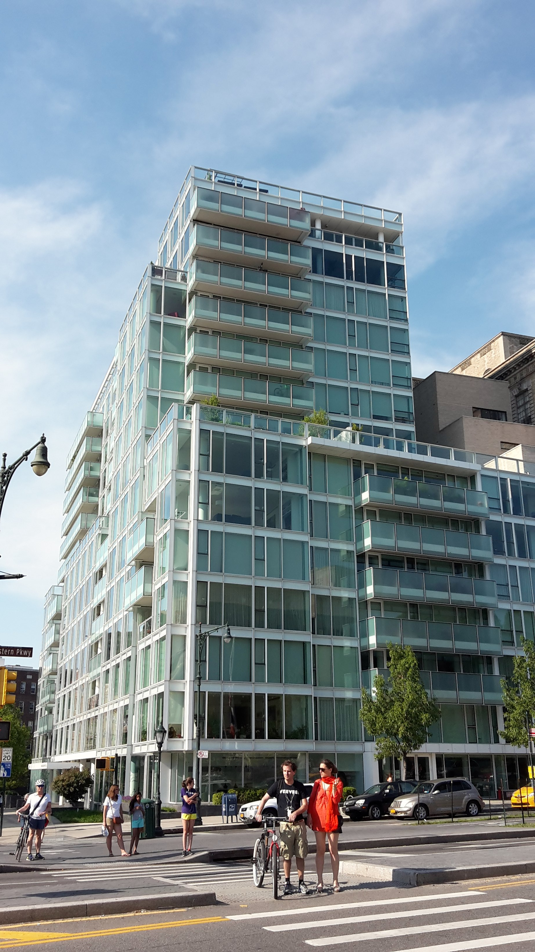 On Prospect Park condominiums in Brooklyn